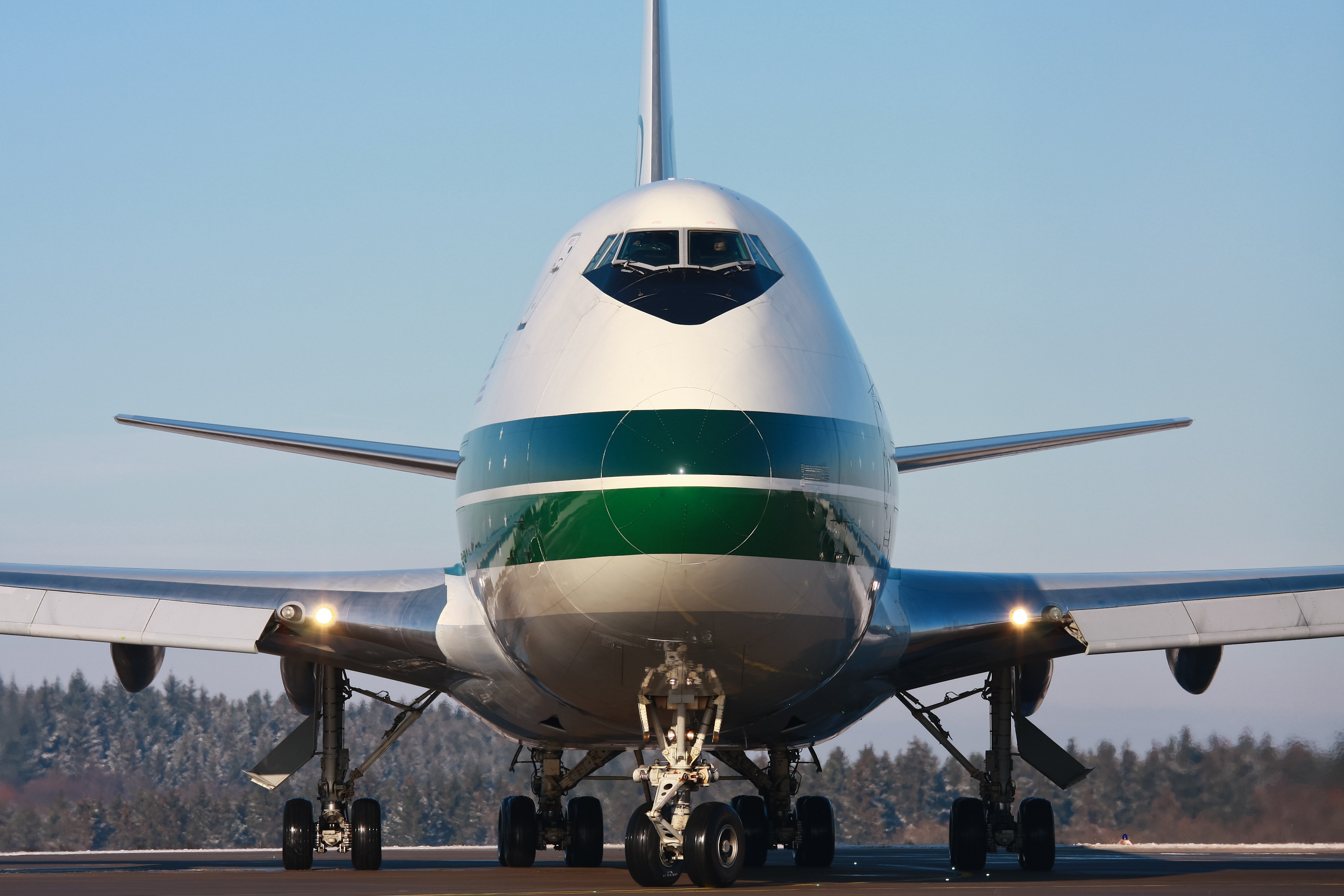 A Boeing 747-200F of Evergreen International Airlines after landing at the Airport Hahn